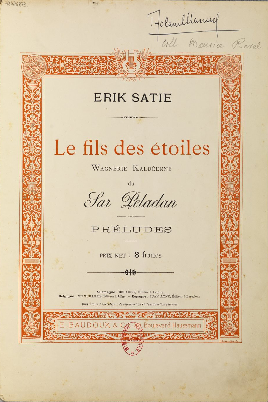 Cropped, adjusted version of PD image available from BNF